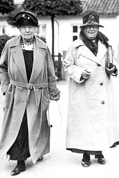 Selma Lagerlöf (1858-1940), Swedish writer, and Valborg Olander (1861-1943), her girlfriend, visiting Denmark in the 1930'ies.